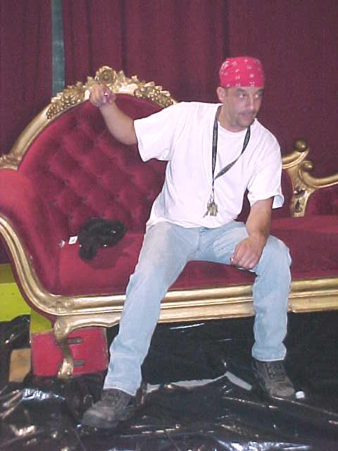 On set of Naked Hollywood